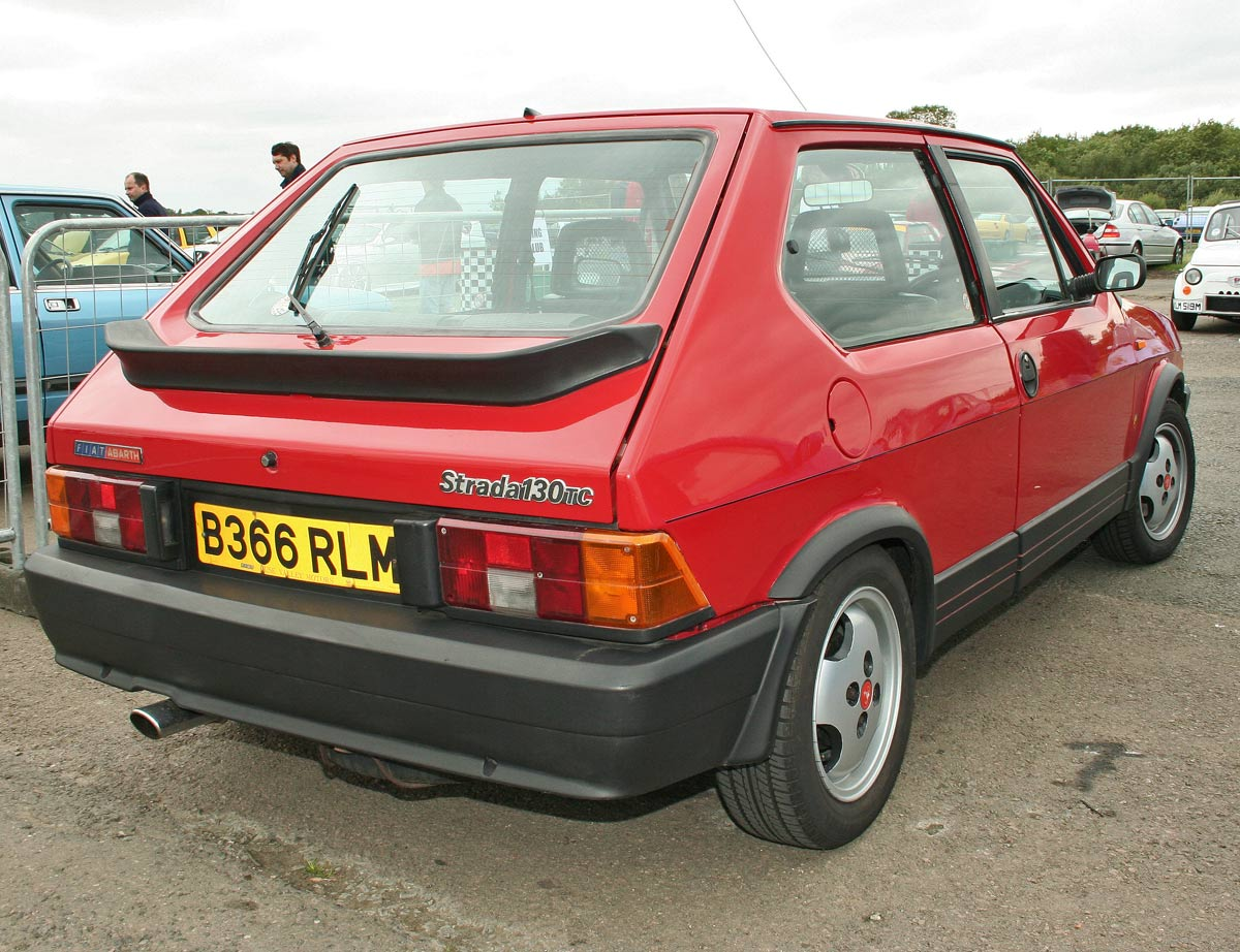 Fiat 130 tc Abarth Santa Pod 2006 auto Italia.